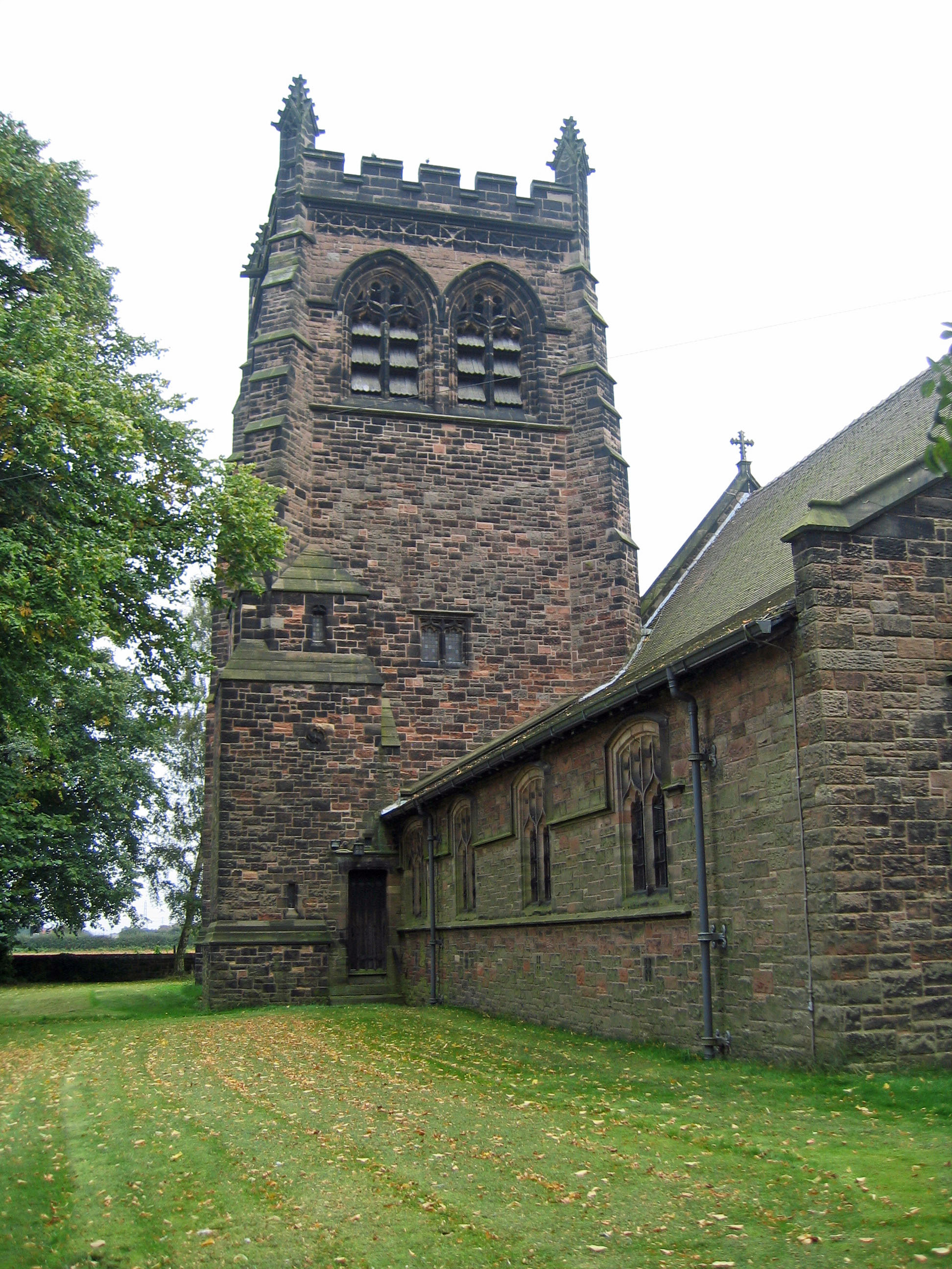 Northeast tower of St Werburgh's parish church, Bent Lane, Greater Manchester, seen from the west